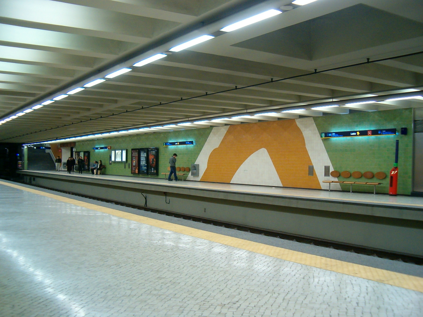 Metro station Lumiar (Lisboa)